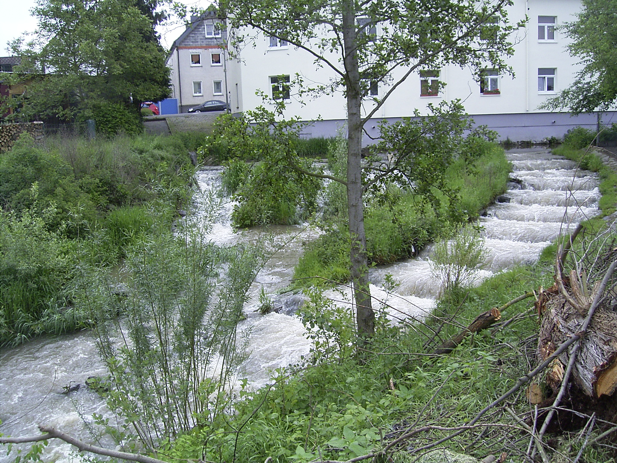 Kleebach falls at linden